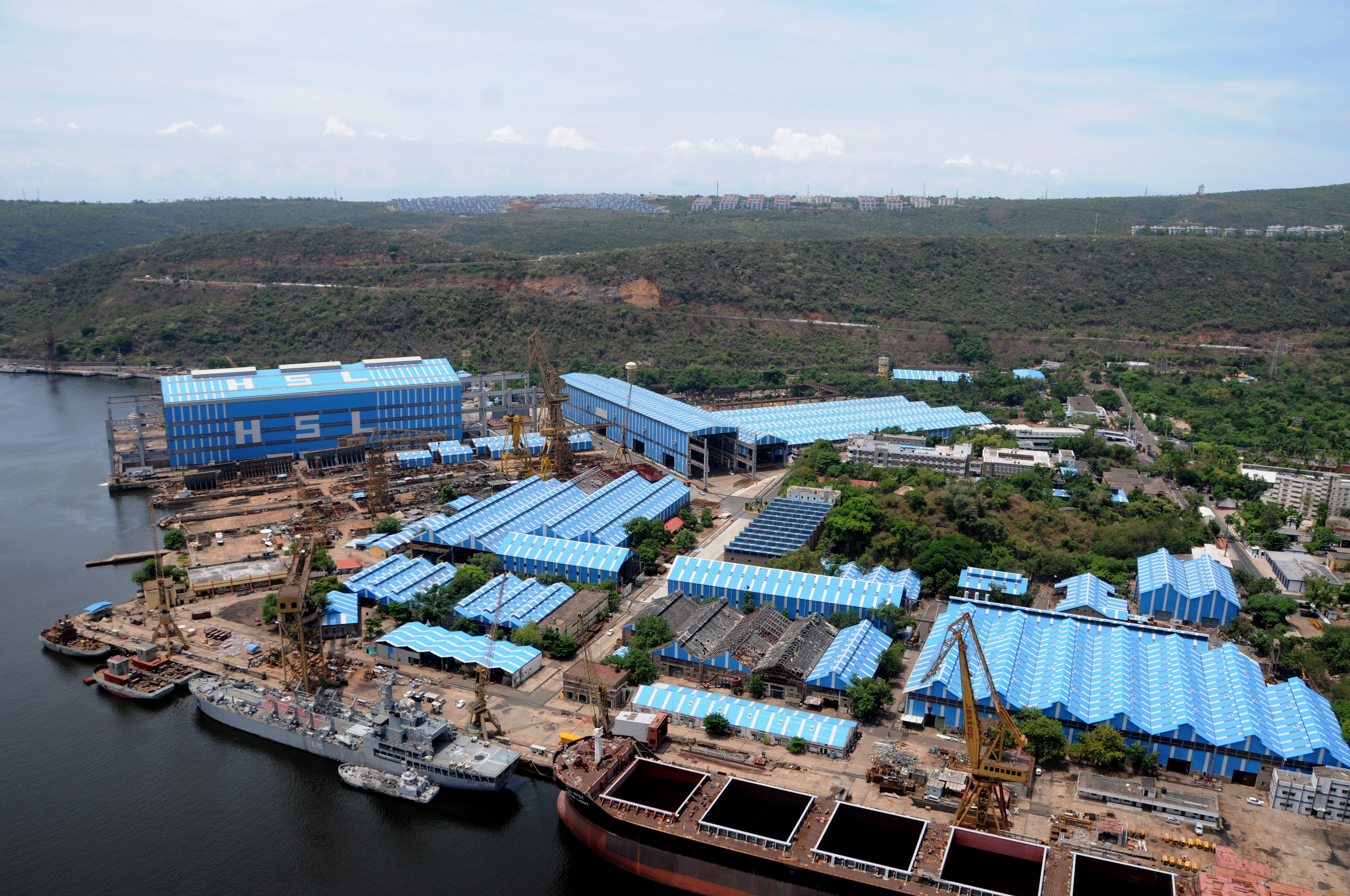 Ariel view of HSL